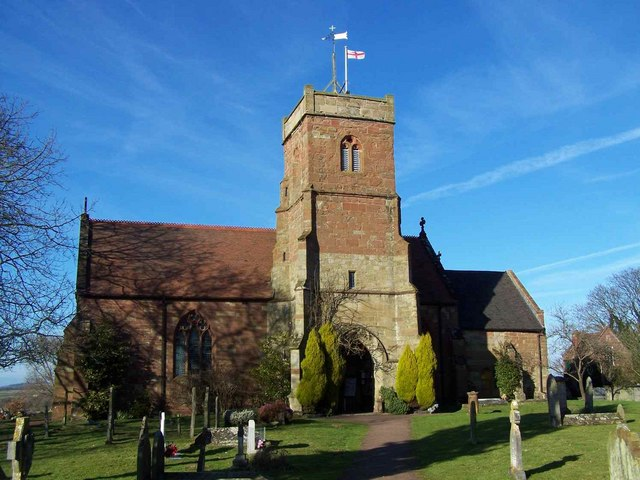 St Bartholomew's parish church, Areley Kings, Worcestreshire, seen from the south